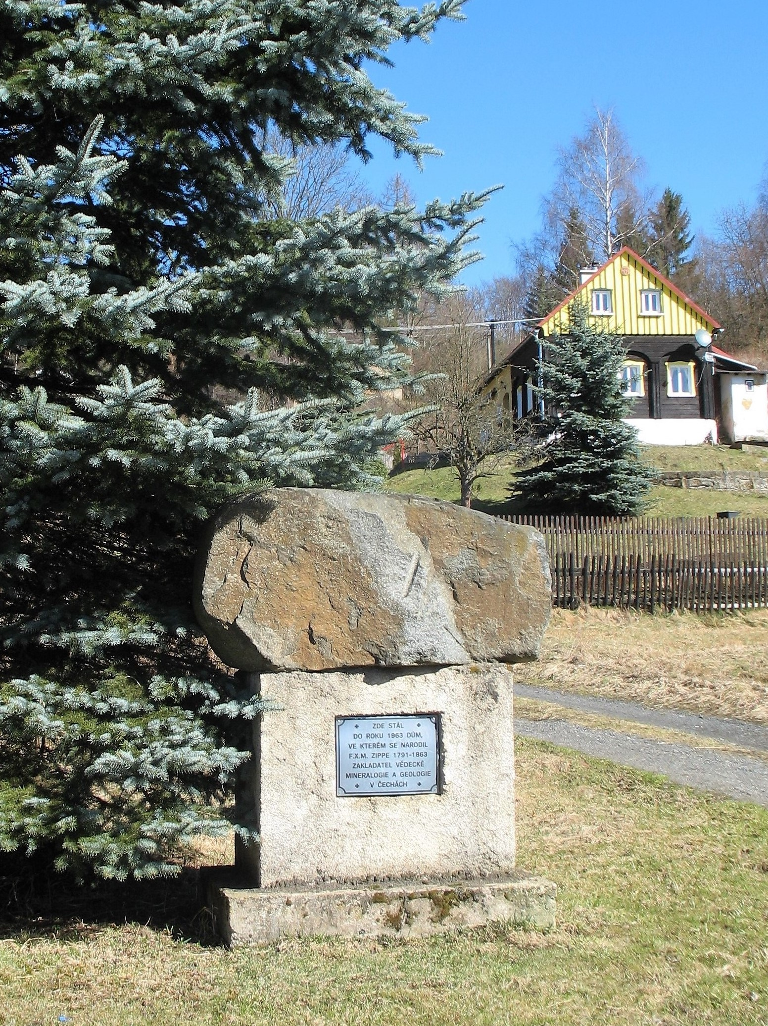 Memorial of F. X. M. Zippe in Kytlice, Děčín District, Czech Republic